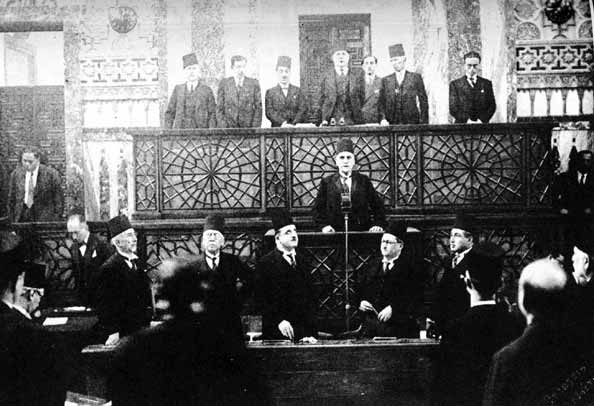 At the presidential inauguration of Hashim al-Atassi in Parliament on December 31, en:1936. Back row, standing from left to right: Tawfiq al-Shishakli, Fakhri al-Barudi, George Sihnawi, Faris al-Khury, the Speaker of Parliament, Ibrahim Hananu, and Nazim al-Kudsi. Bottom row, from left to right: ex-Prime Minister en:'Ata' Bay al-Ayyubi, Mustapha al-Qusayri, Bahjat al-Shihabi, Said al-Ghazzi, and Edmond Homsi. In the middle, delivering his address, is President Hashim al-Atassi.